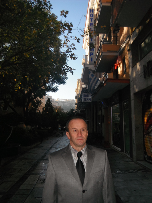 Dragan Djokanovic in central Athens